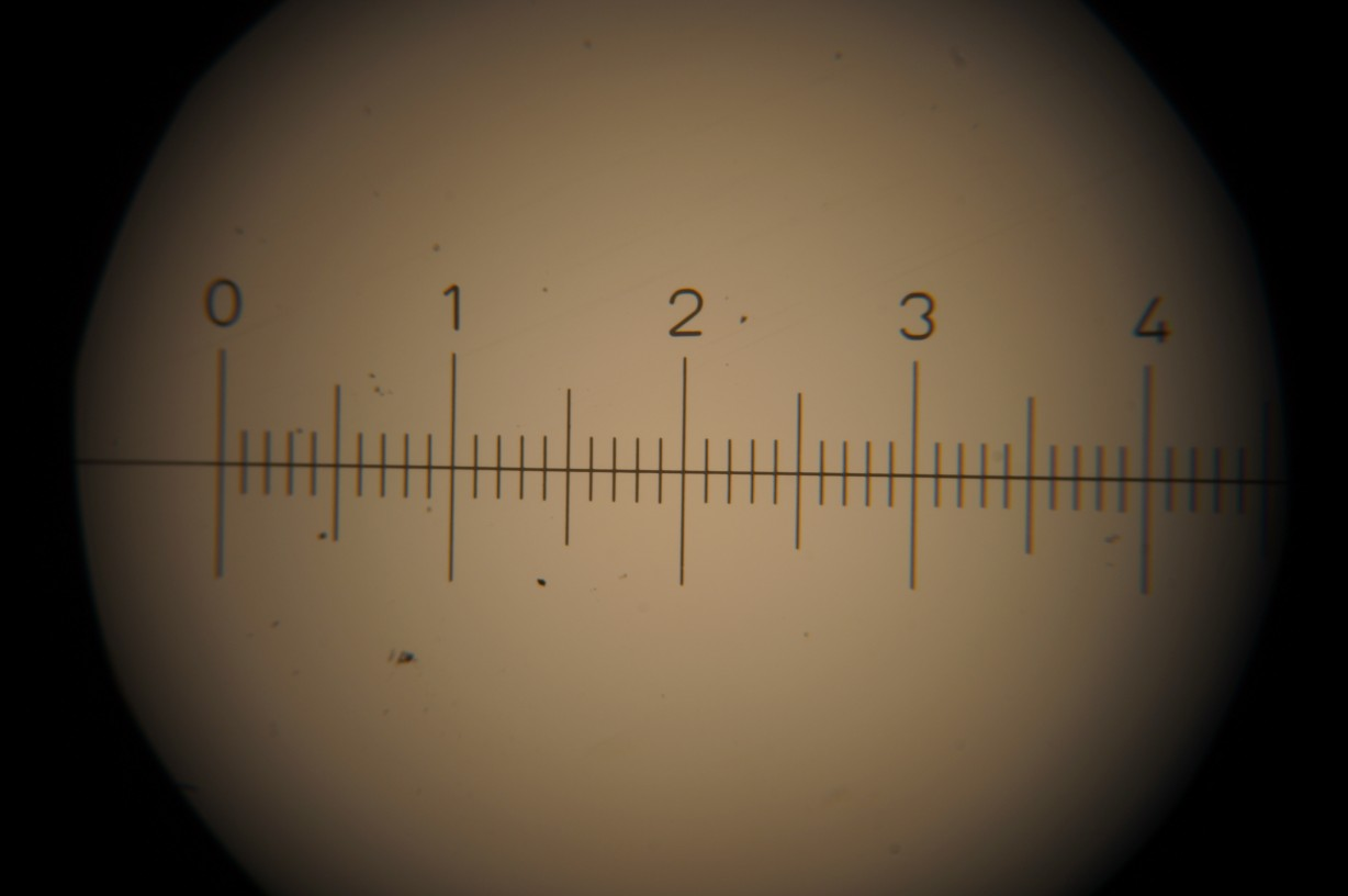 Object micrometer with low power magnification (4x objective).